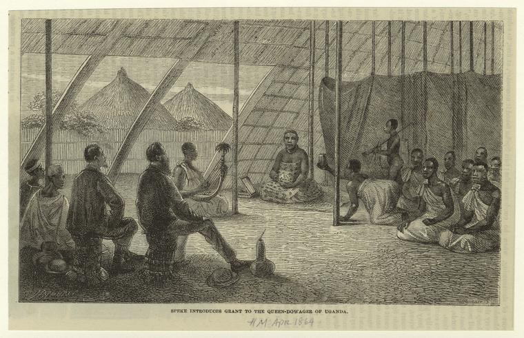 "Speke introduces Grant to the queen-dowager of Uganda" (John Hanning Speke the explorer, with James Augustus Grant)